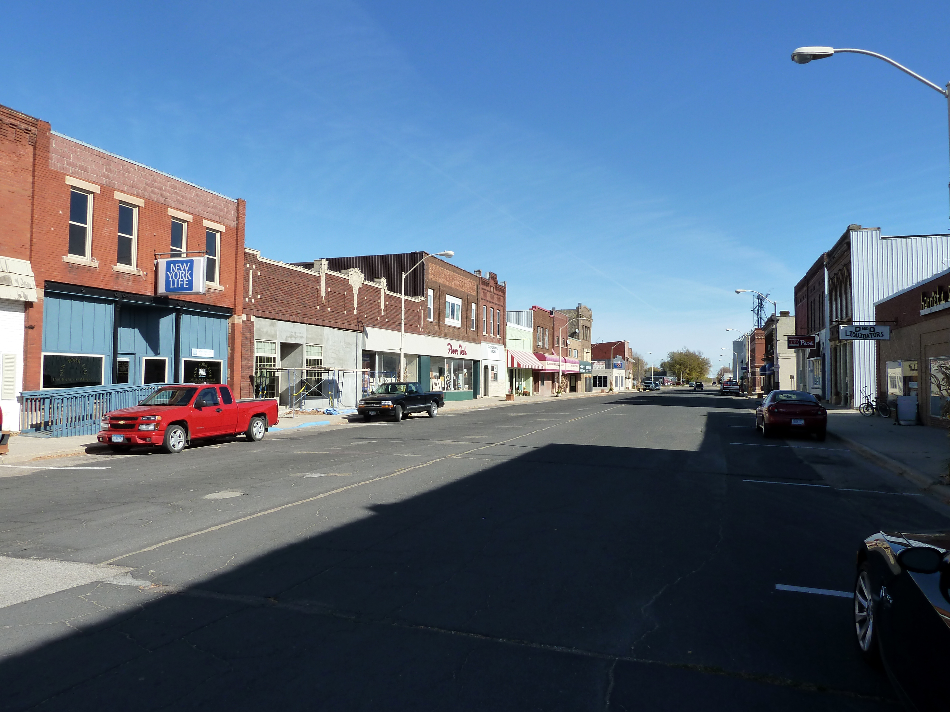 Blooming Prairie Commercial Historic District, Blooming Prairie, Minnesota, USA.